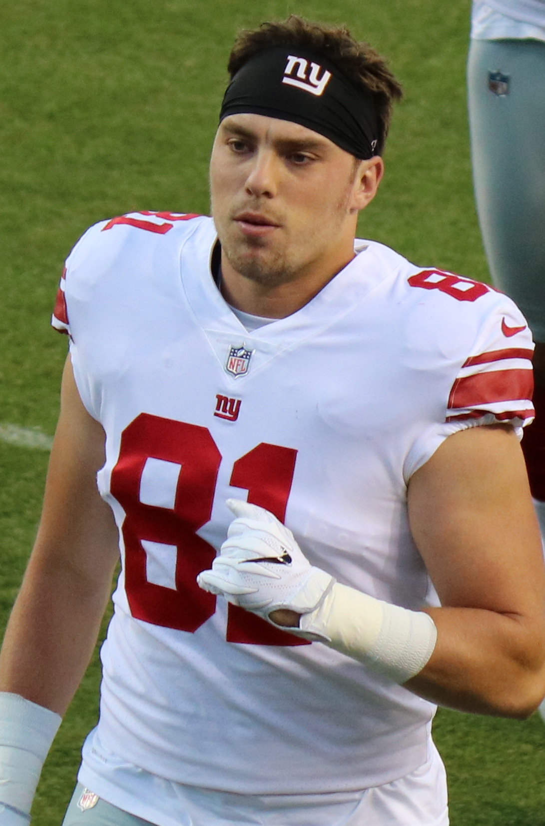 Matt LaCosse, a player on the National Football League.